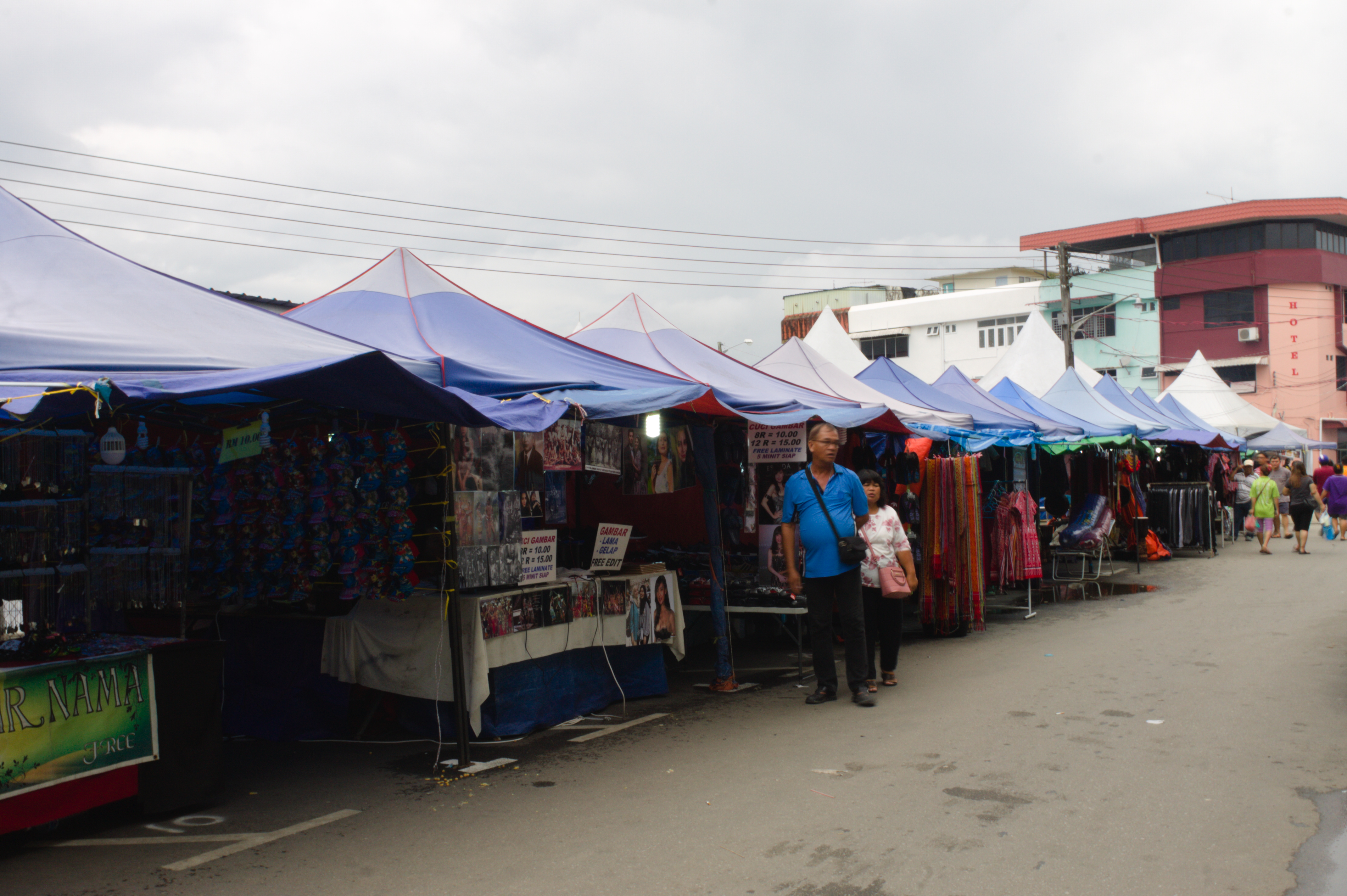 Stalls at Pesta Kanowit 2018